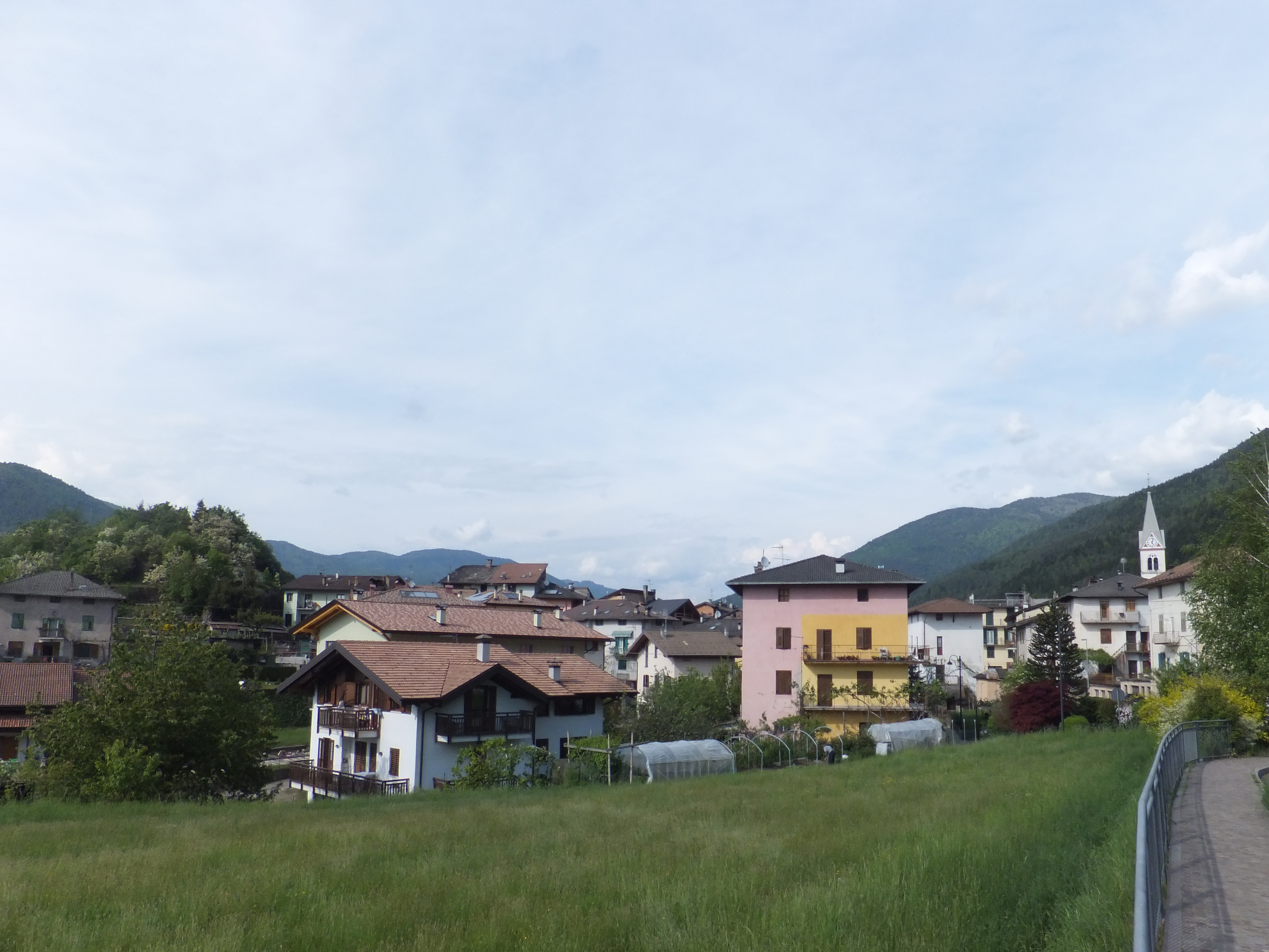 Lona - view of the town